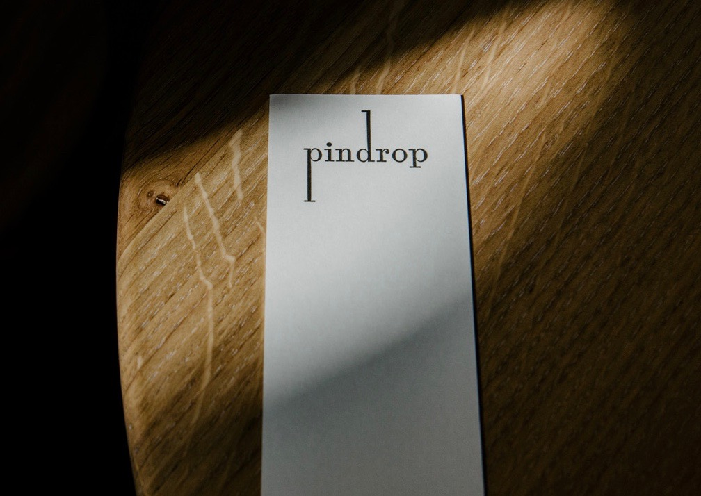 A bookmark given away at Pin Drop Studio salon events